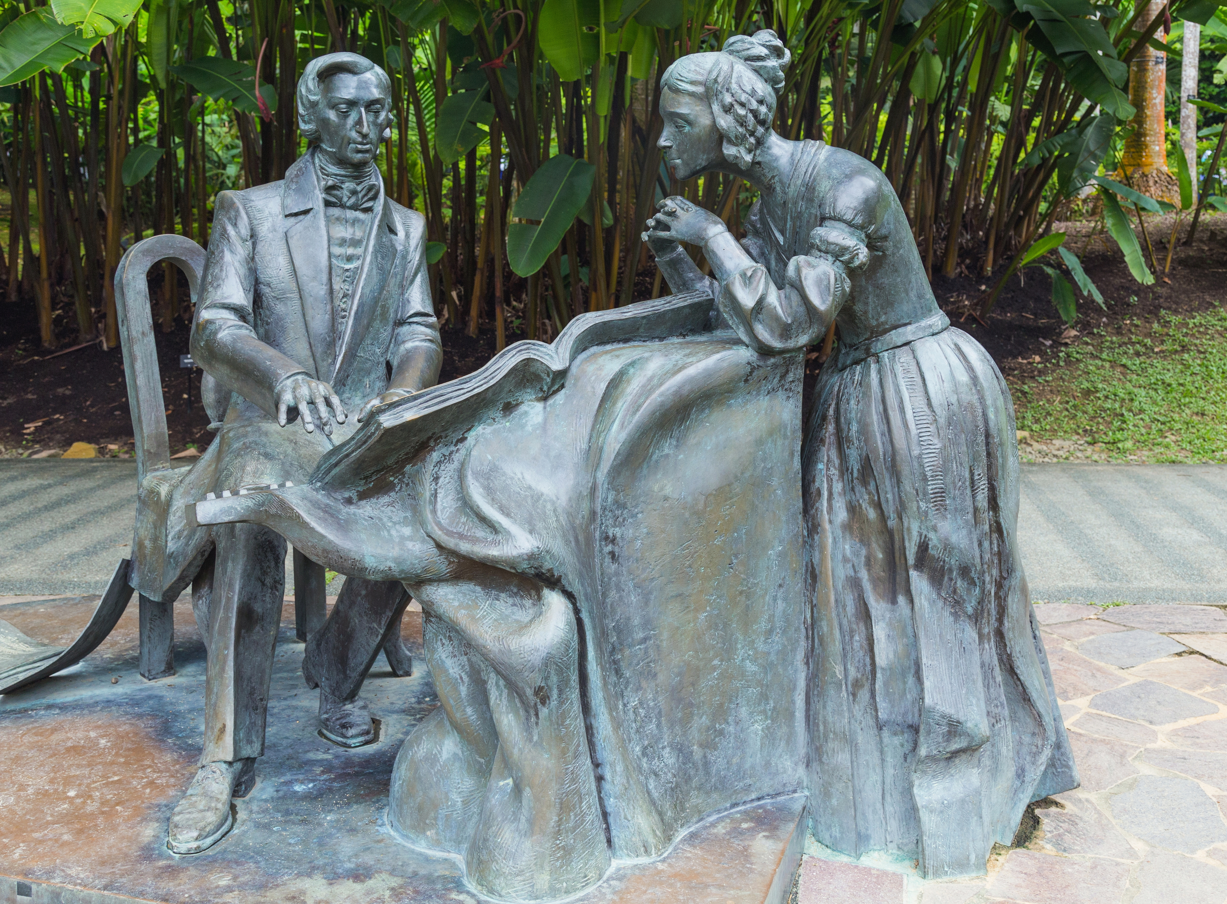 Frederic Chopin statue. Botanic Gardens. Central Region, Singapore.